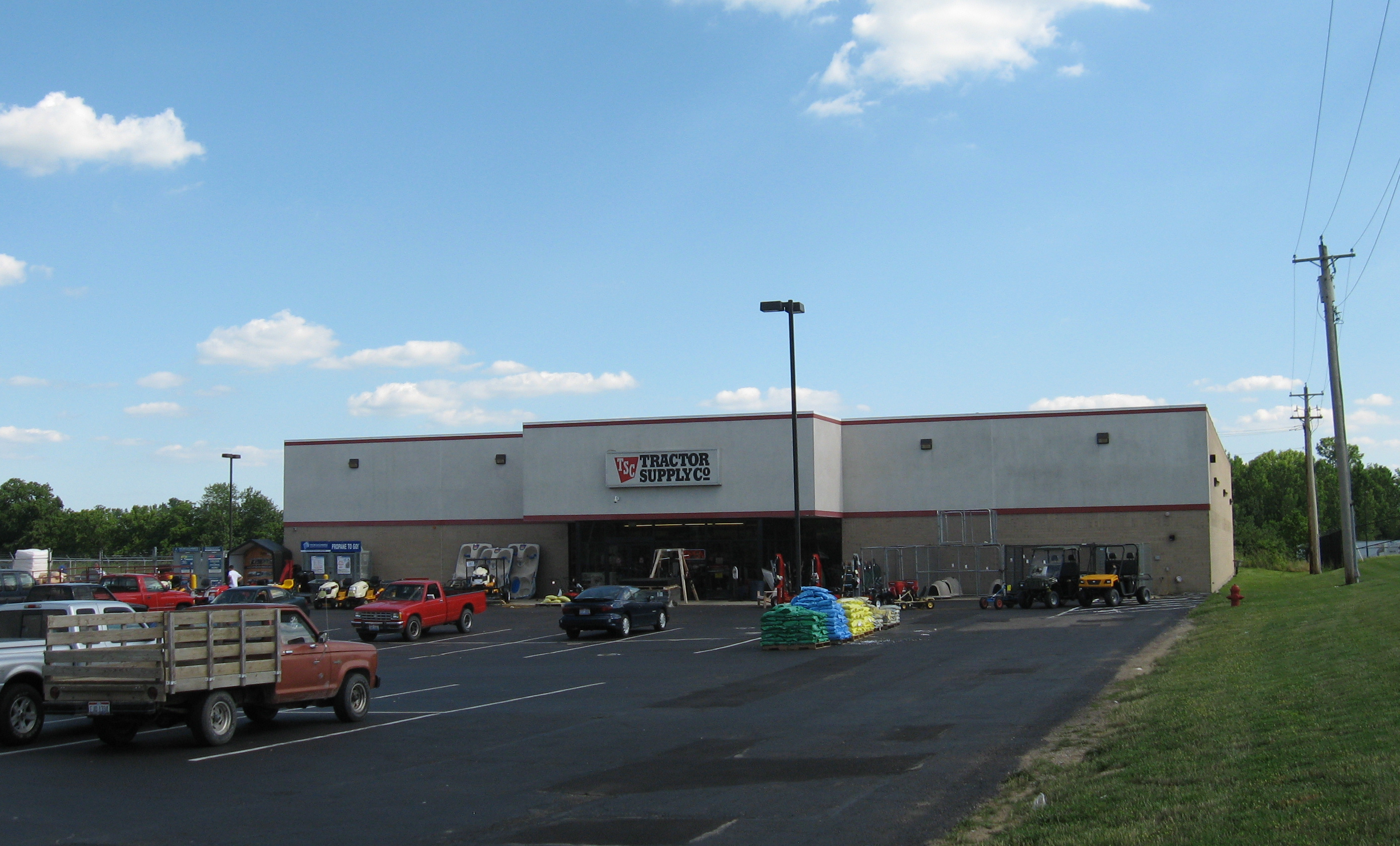 Tractor Supply Company location (Springboro, USA)